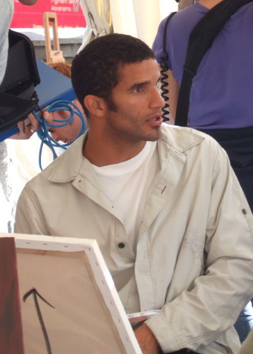 David James at an art center in Trafalgar Square